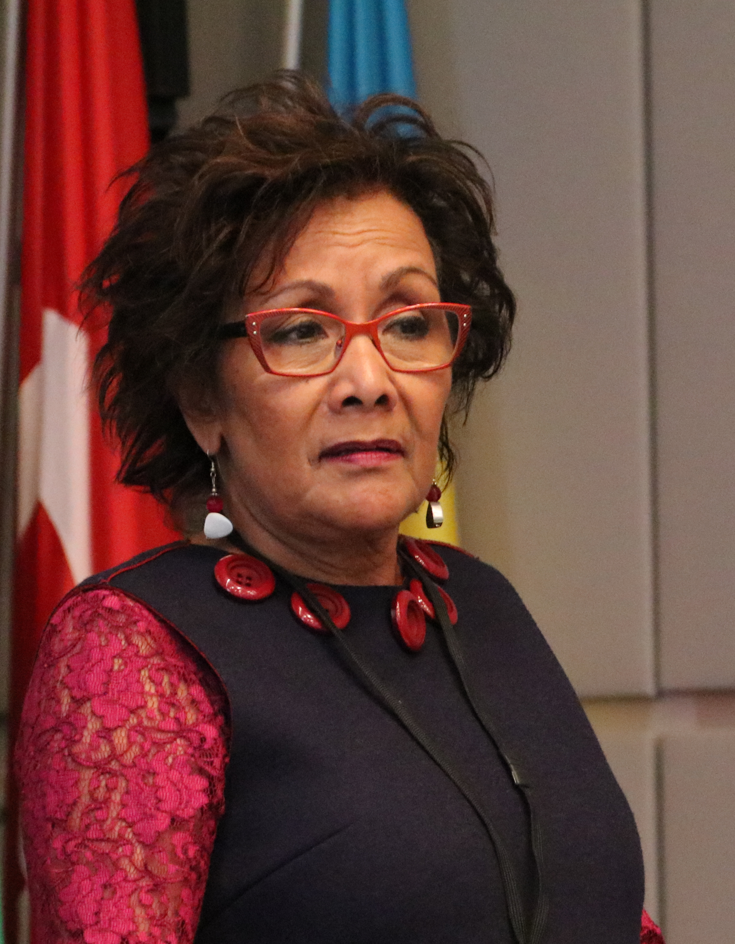 Special Representative on Gender Issues Hedy Fry at the Opening Joint Session in Vienna